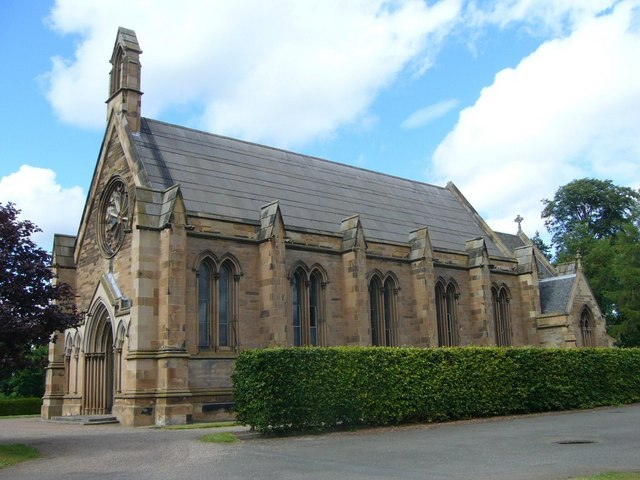 St Mary's Church, Dalkeith Park The church, built as a private chapel for the Duke of Buccleuch in 1845, made headlines in May 1913 when a bomb was discovered, presumed to have been planted by local militant suffragettes. A similar bomb exploded days later at Edinburgh's Blackford Hill Observatory. No arrests were made.